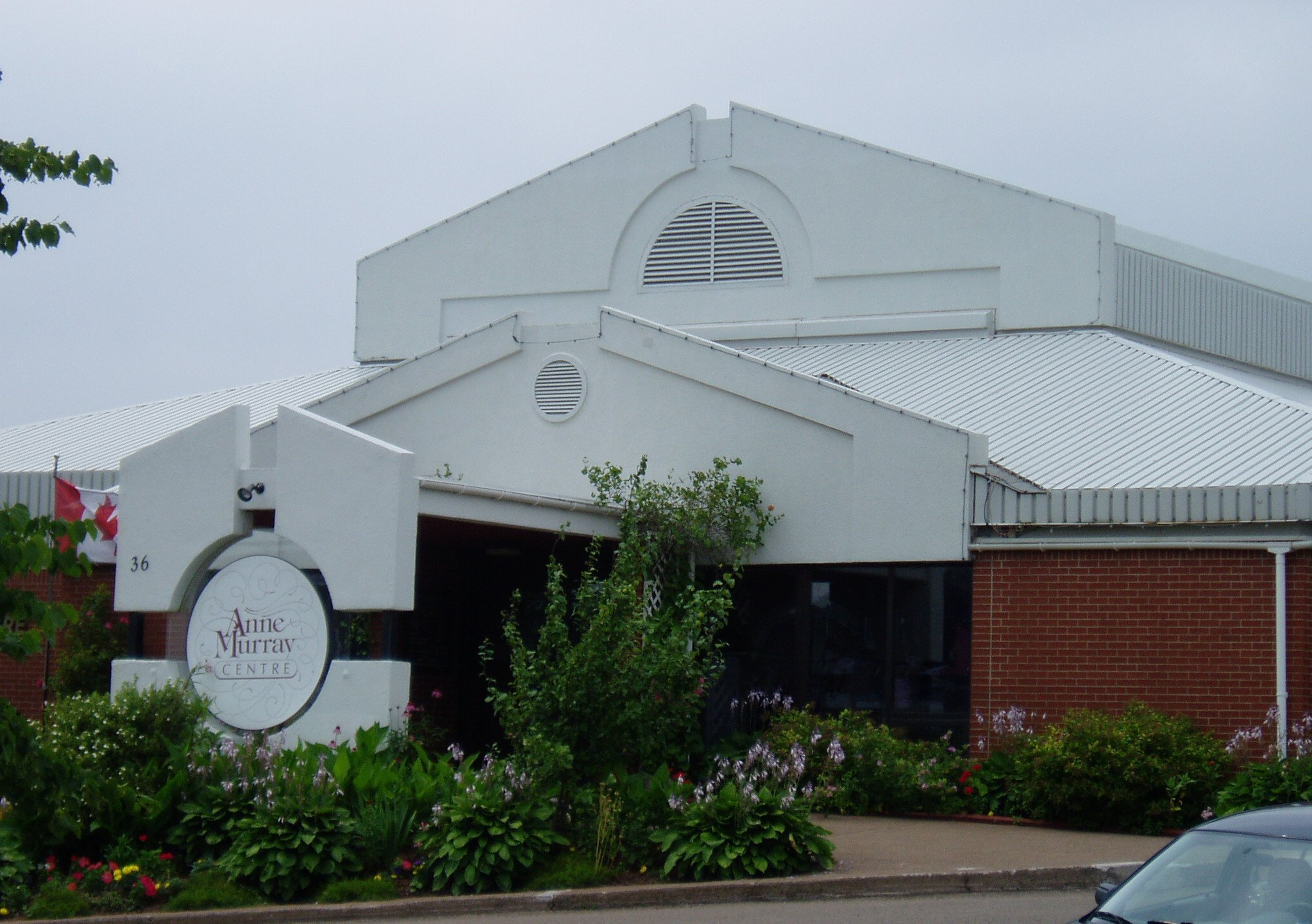 The Anne Murray Centre in Springhill, Nova Scotia. Taken by SimonP